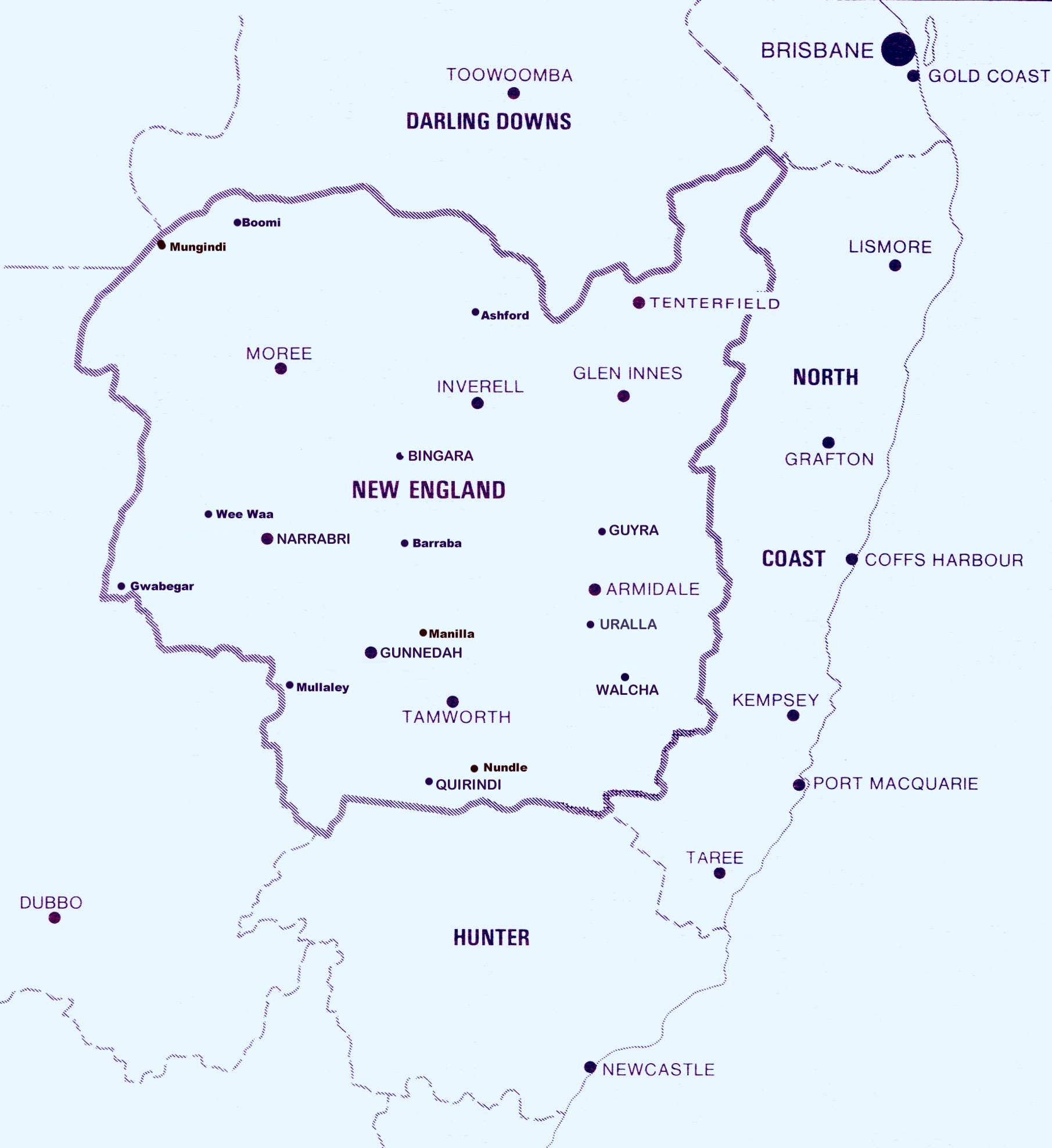 Approximate location of the New England region within the state of New South Wales.